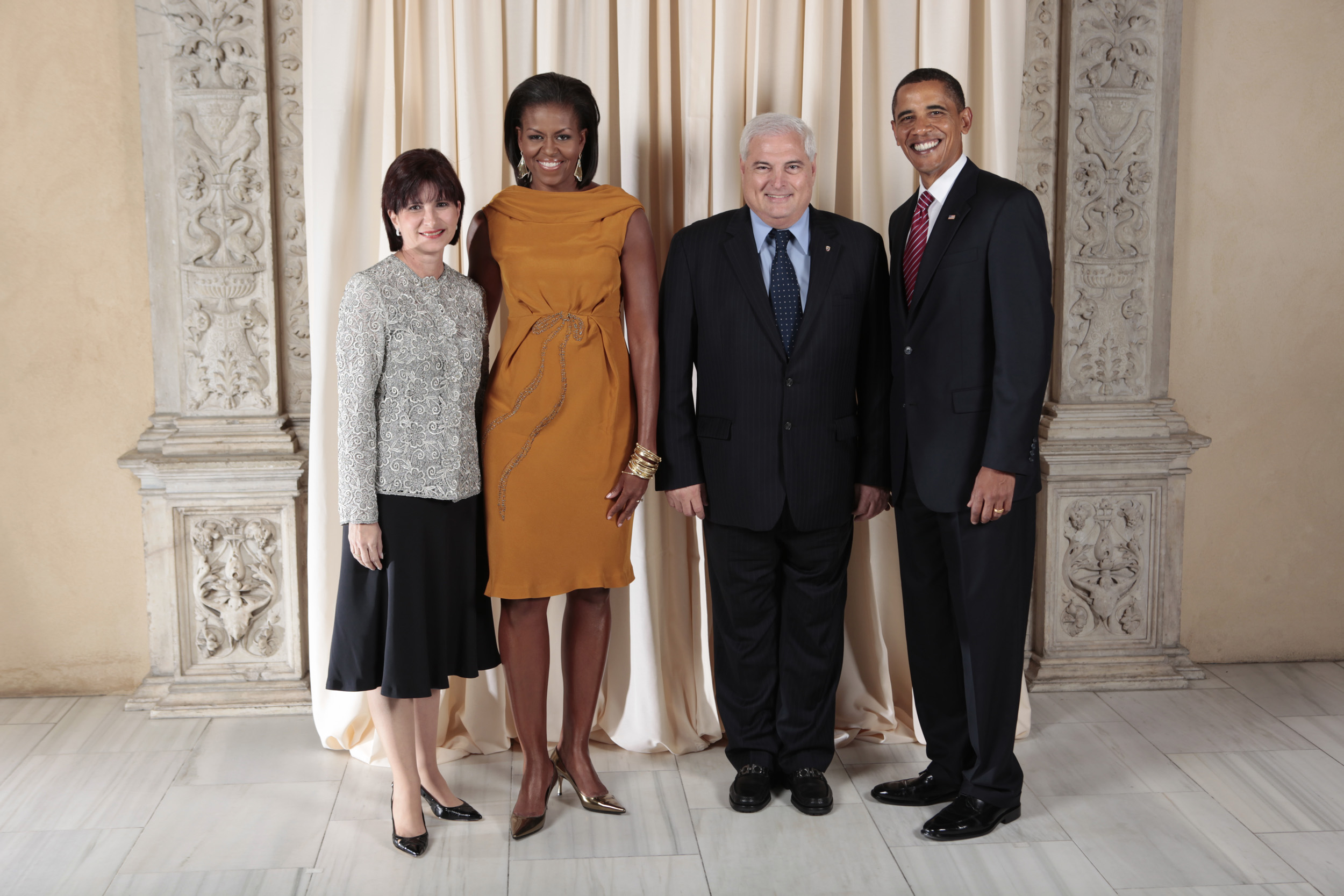 President Barack Obama and First Lady Michelle Obama pose for a photo during a reception at the Metropolitan Museum in New York with Ricardo Martinelli, President of the Republic of Panama, and his wife First Lady Marta L. de Martinelli.